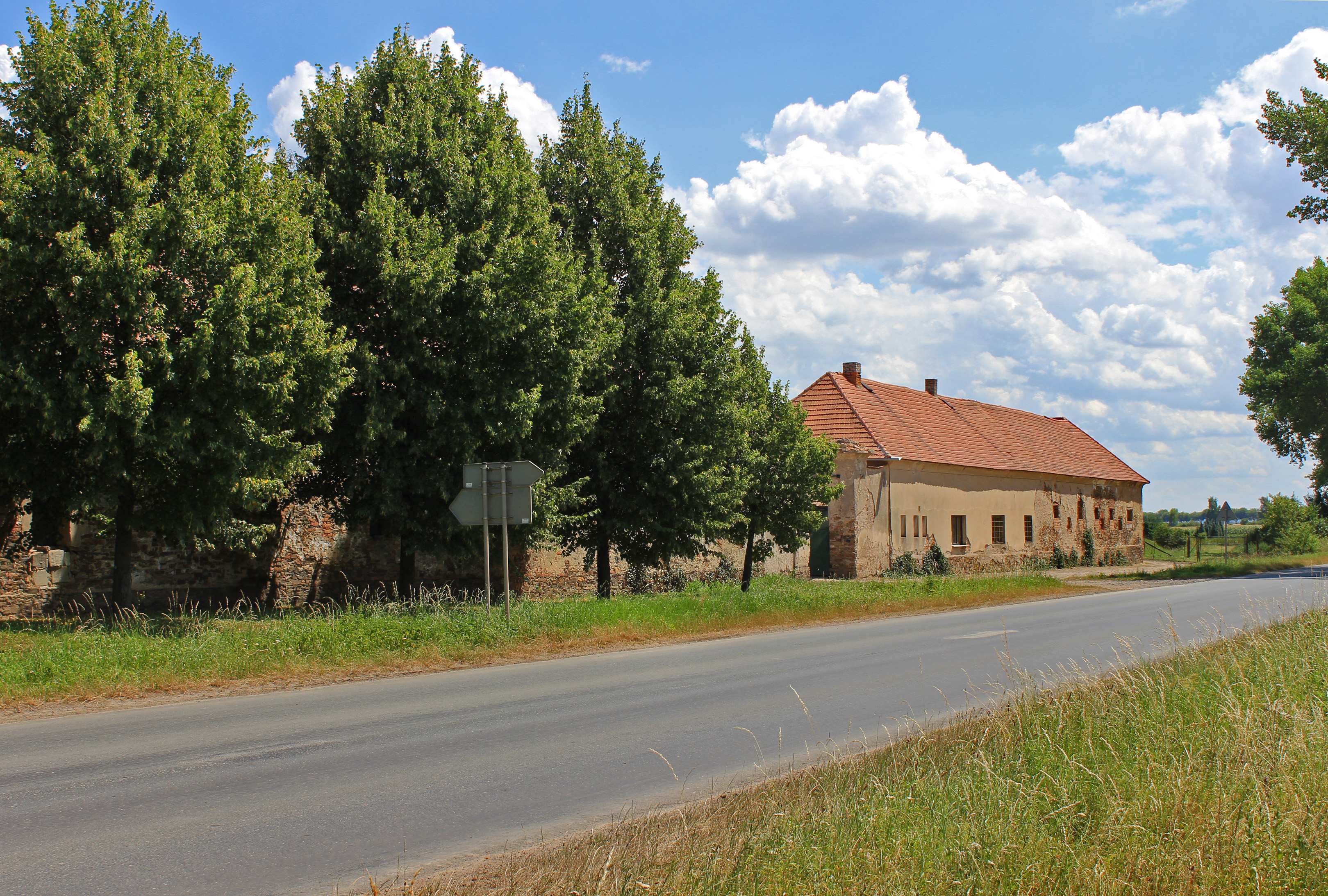 Agricultural buildings in Druhanice, part of Chotusice, Czech Republic.